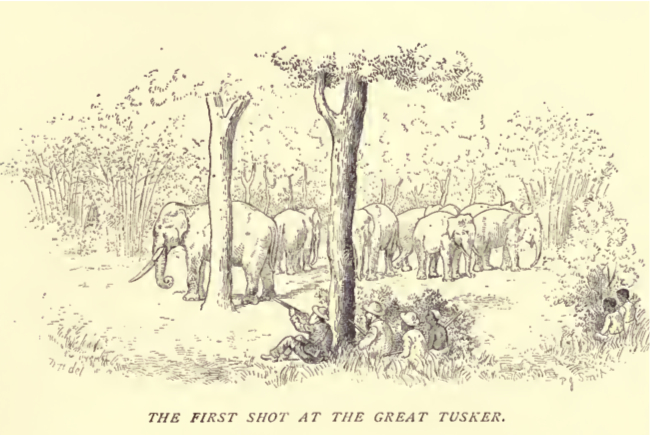 Douglas Hamilton, First shot at big tusker